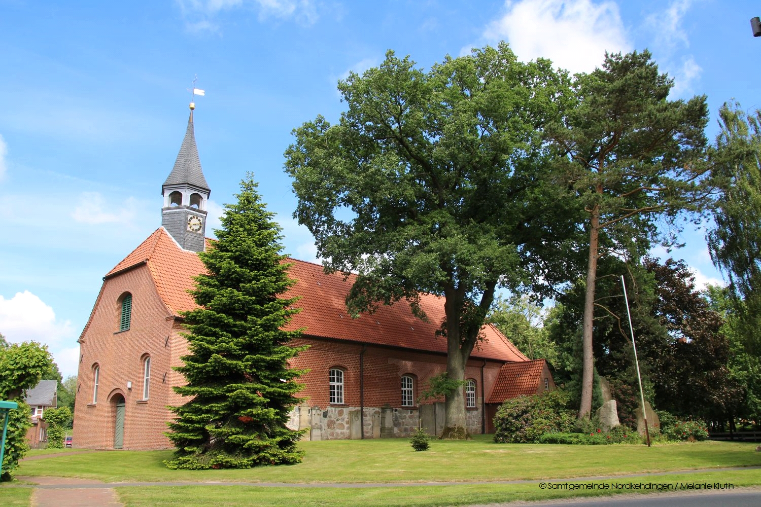 View of the church St. Dionysius in Hamelwörden, Wischhafen.